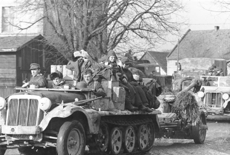 SdKfz-10 artillery tractors with 75 mm PaK-40 guns